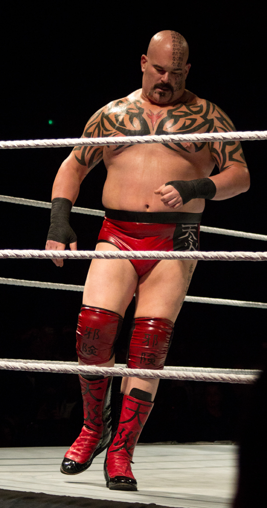 Tensai during a WWE house show on February 2, 2013 in Montgomery, Alabama.